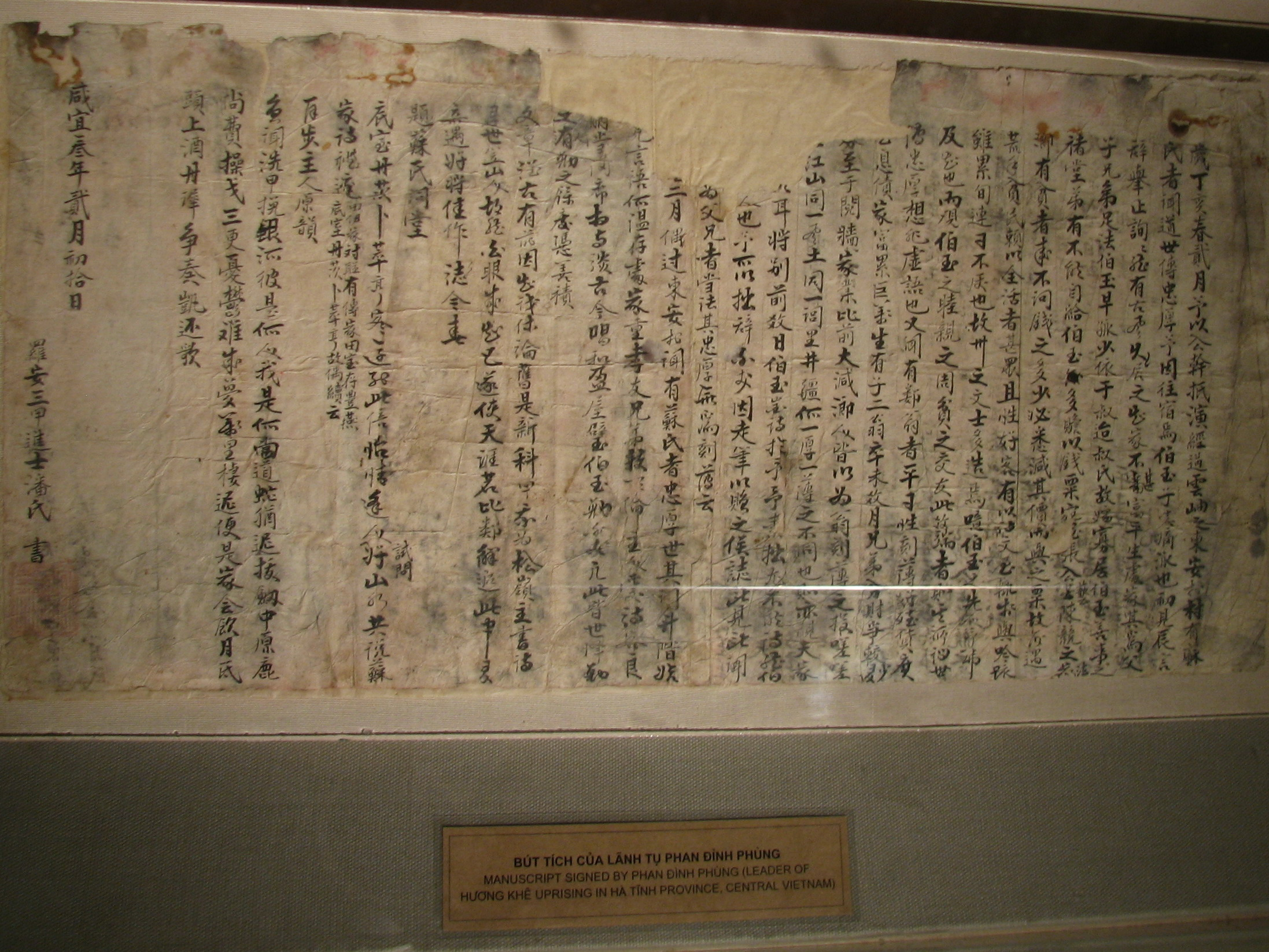 Manuscript signed by Phan Dinh Phung, taken in Vietnam History Museum, Hanoi, Vietnam